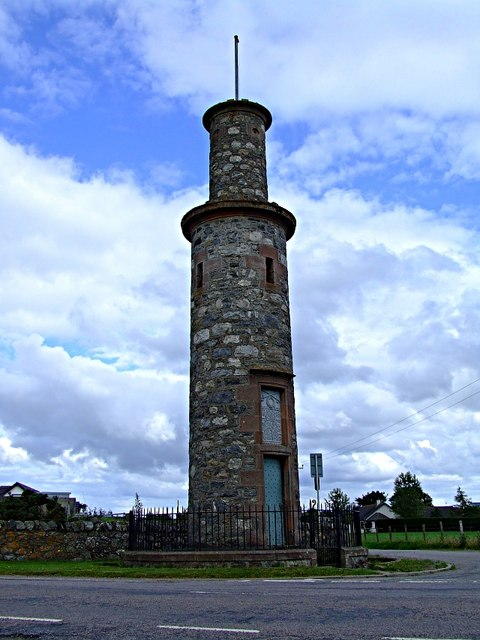 War Memorial on the B9169 in Mulbuie, on the Black Isle. The monument is in memory of Sir Hector Archibald MacDonald, who was born near here at Rootfield in 1863. Photo taken from the road.